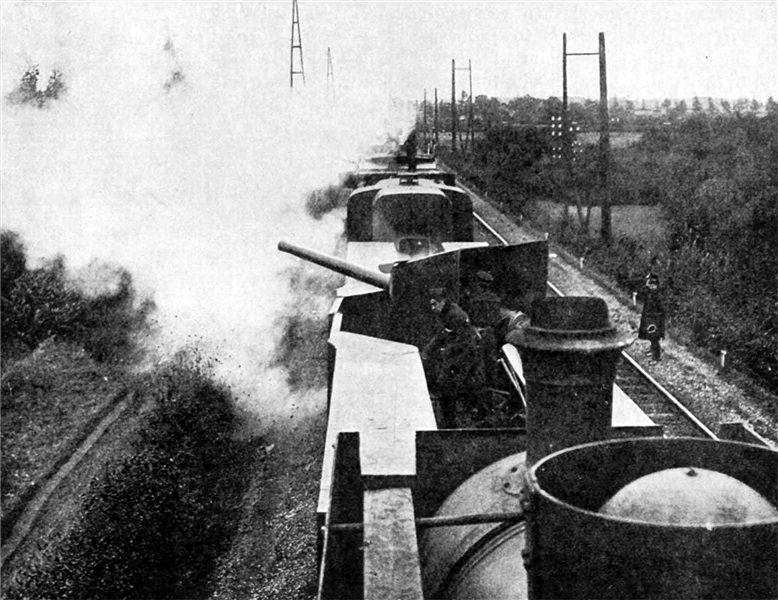 Belgian armored train in combat during the German advance towards Antwerp in World War I, 1914